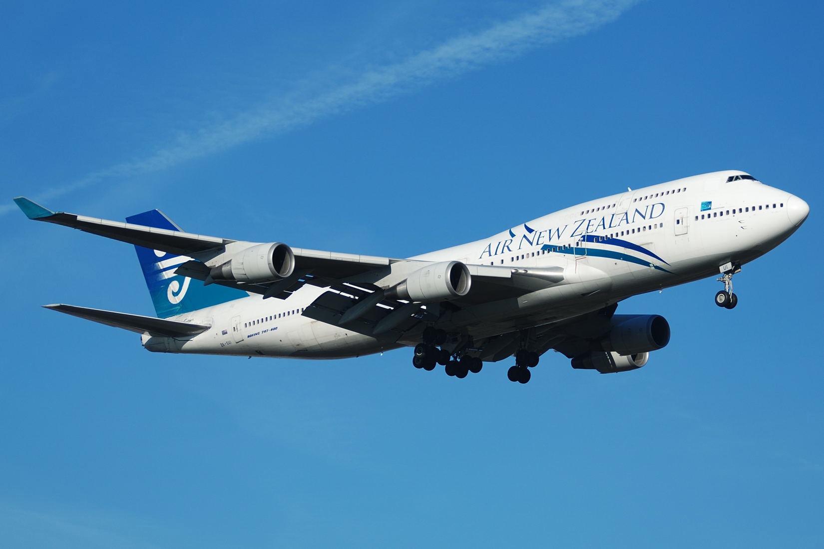 heathrow 10th feb 2008